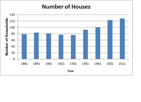 Total amount of households in the parish of Stainton, South Lakeland between the years of 1881 and 2011 received from census data